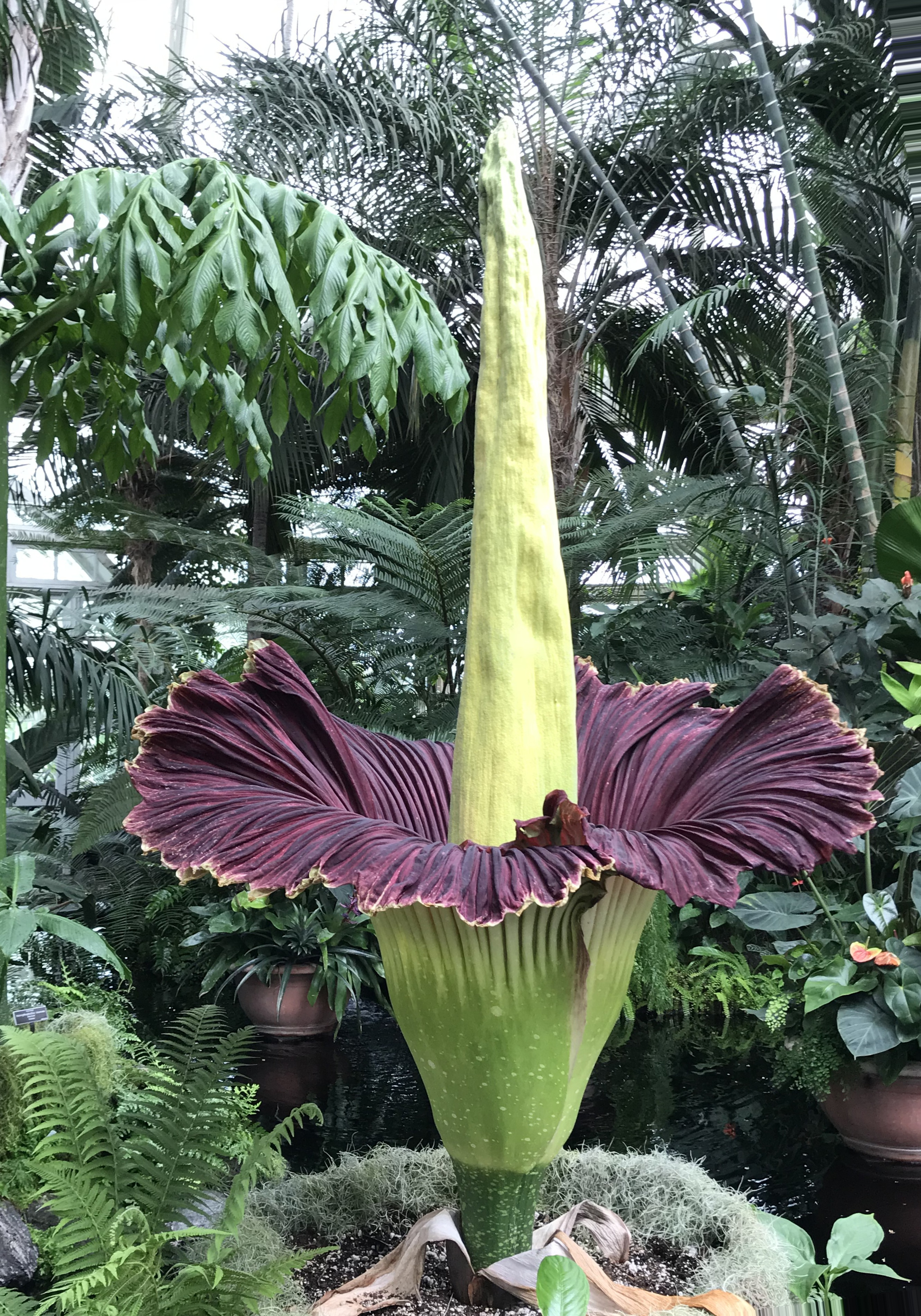 New York Botanical Garden corpse flower in bloom June 27, 2018